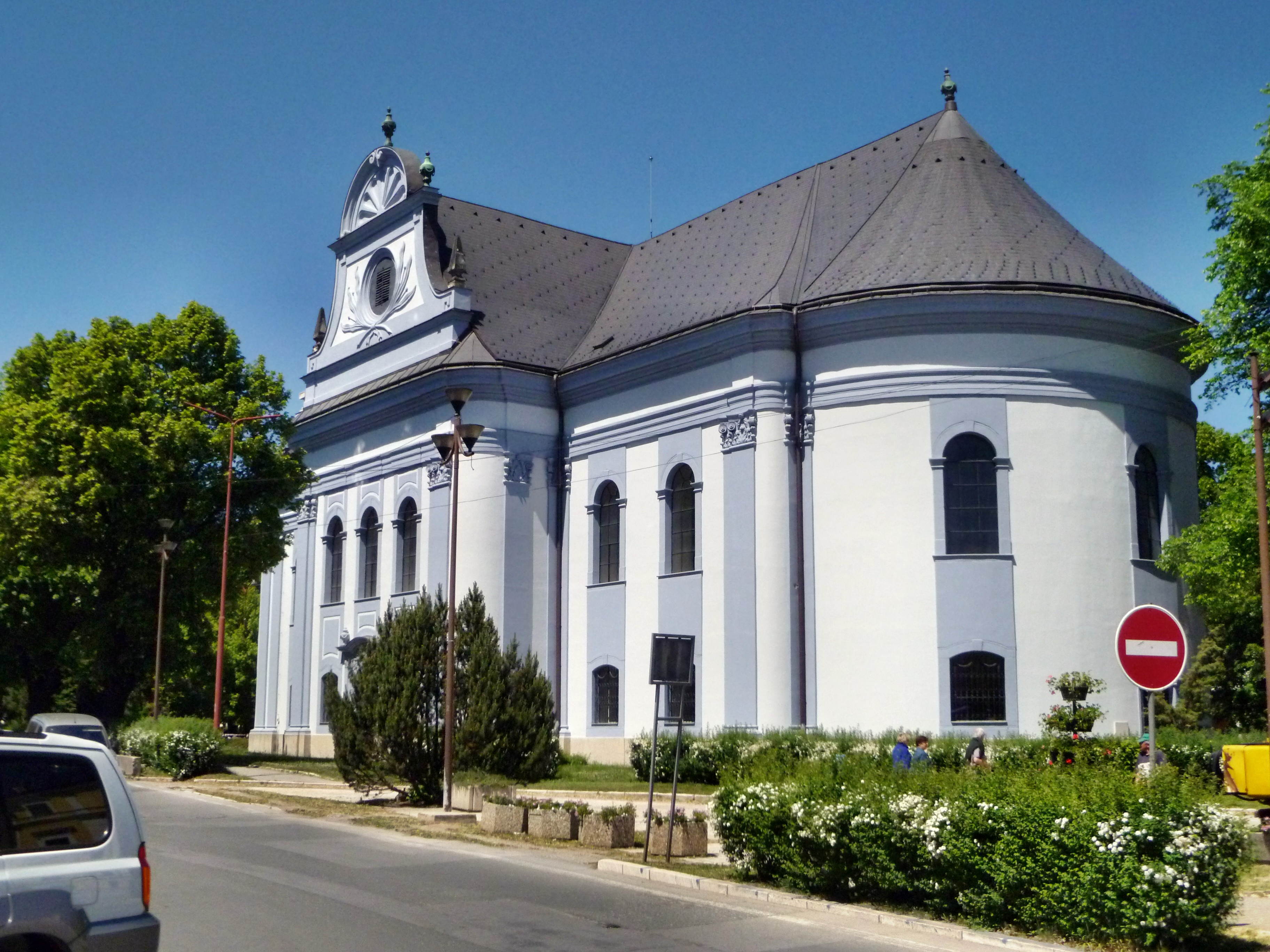 Evangelical church in Spišská Nová Ves, Slovakia